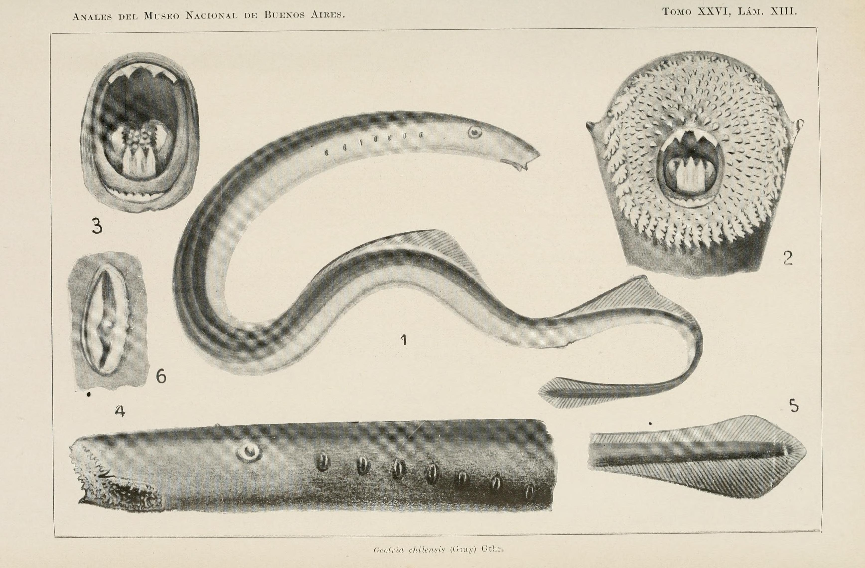 Geotria australis syn. G. chilensis Title: Anales del Museo Nacional de Historia Natural de Buenos Aires Year: 1911-1923. (1910s) Authors: Museo Nacional de Historia Natural de Buenos Aires Subjects: Natural history; Natural history Publisher: Buenos Aires : Impr. y Casa Editora "Juan A. Alsina" Text Appearing Before Image: ' Text Appearing After Image: '